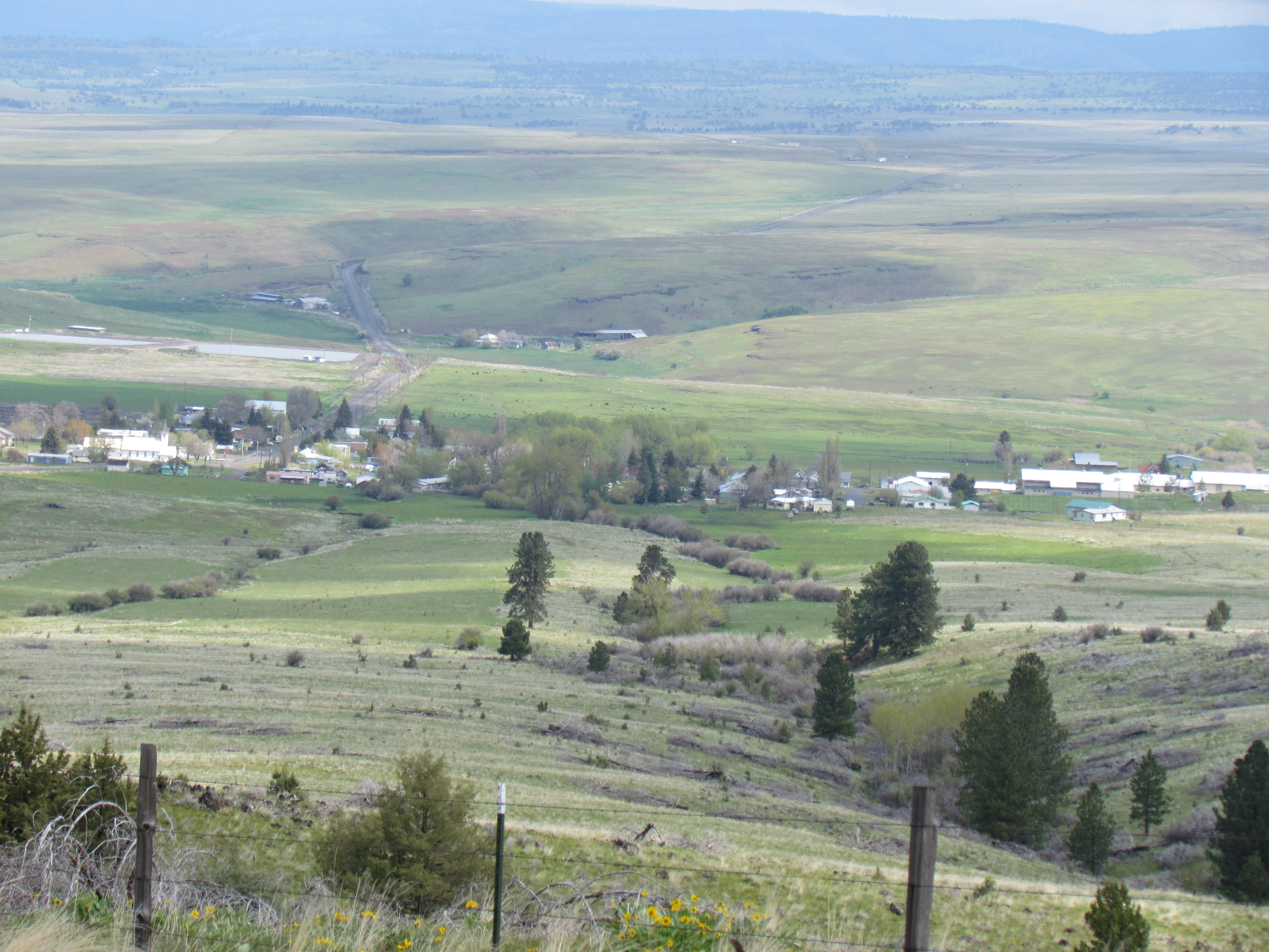 Houses in Long Creek, a small city in Grant County, Oregon, United States